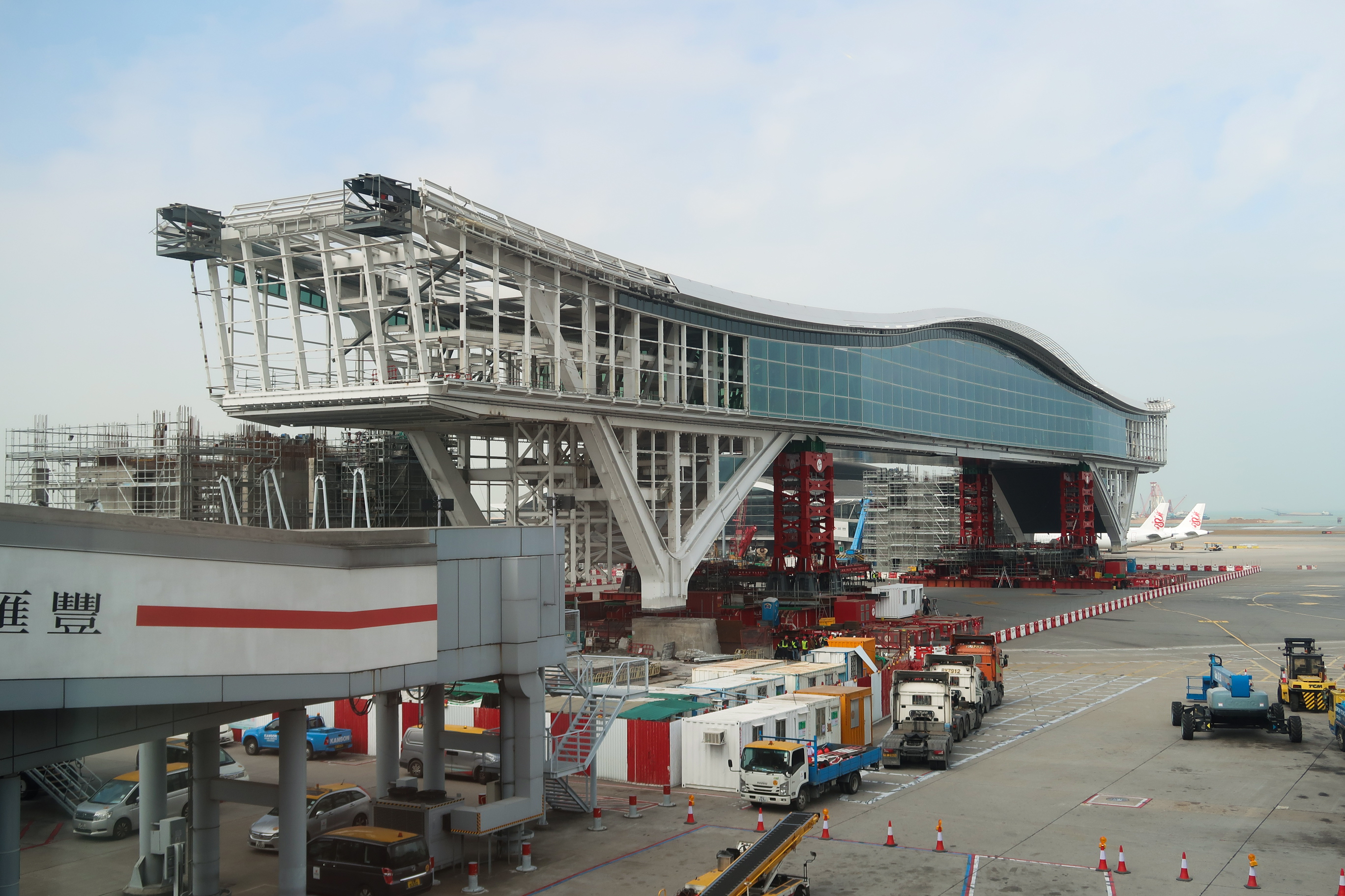 HKIA Terminal 1 Sky Bridge